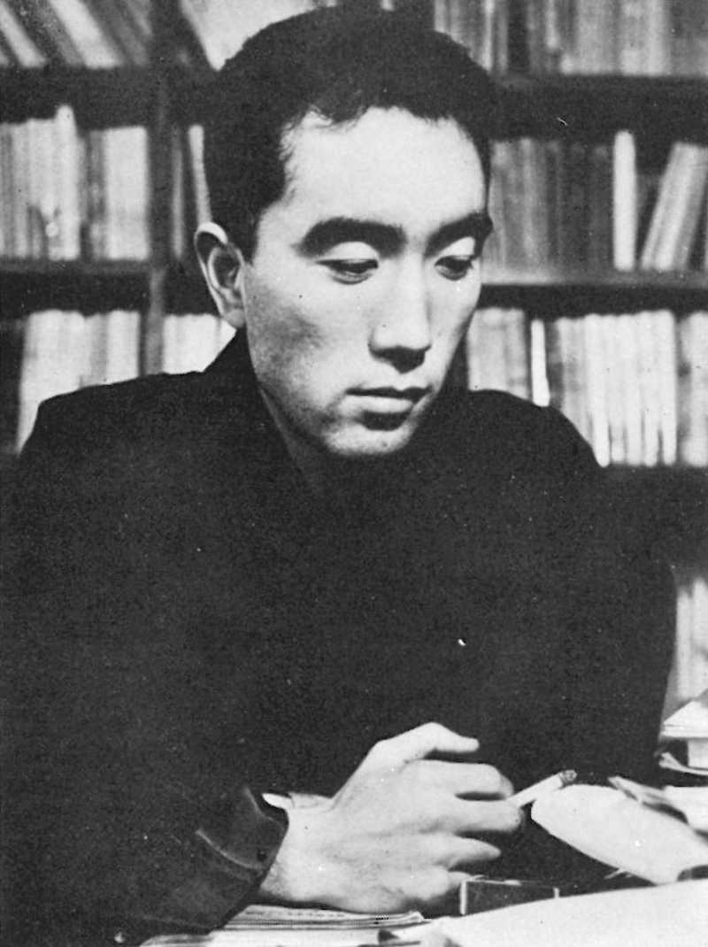 Yukio Mishima